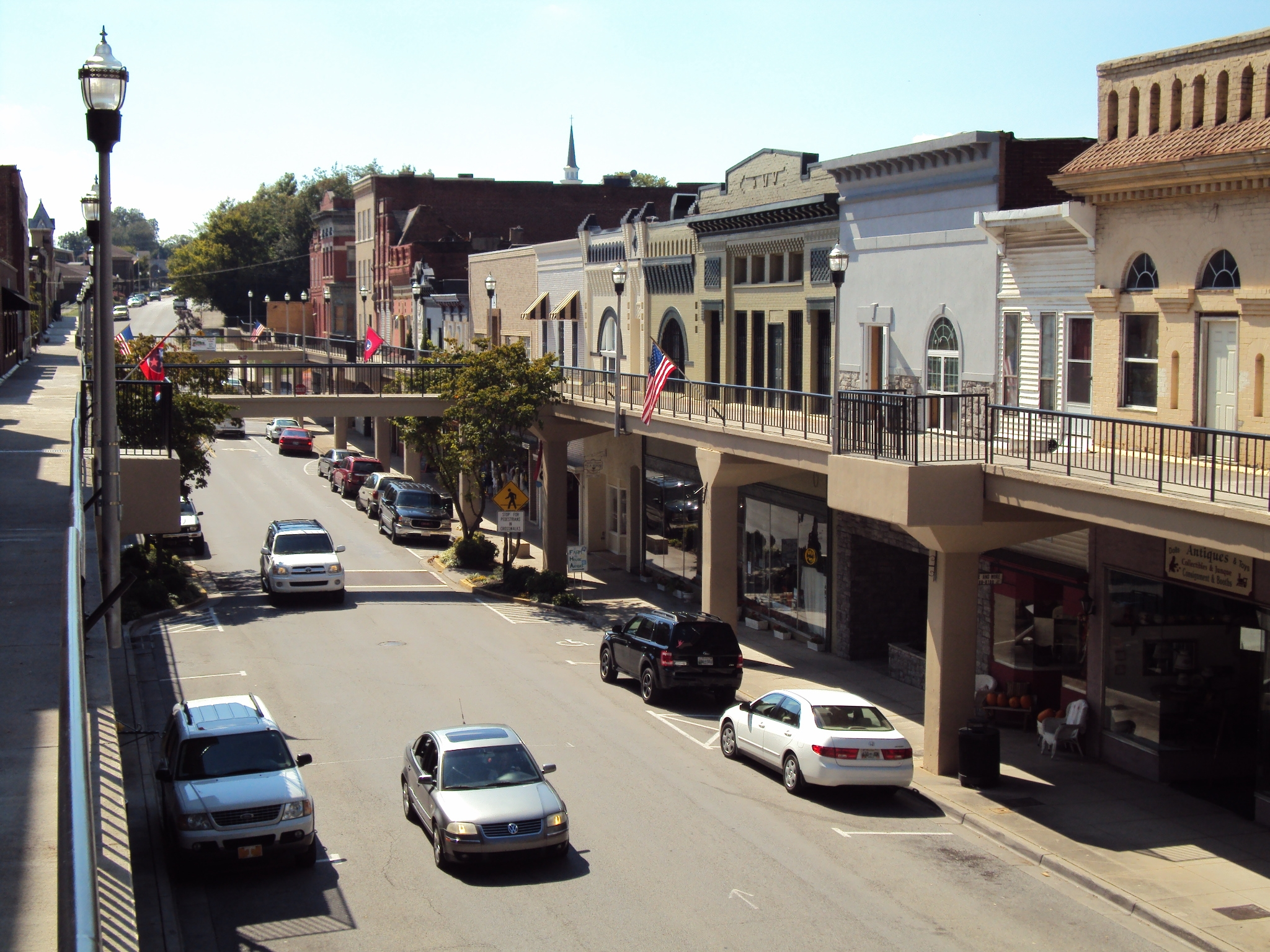 Downtown Morristown Tennessee Overhead Sidewalks